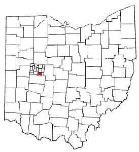 Adapted from Wikipedia's OH county maps. Created by SwissCelt.